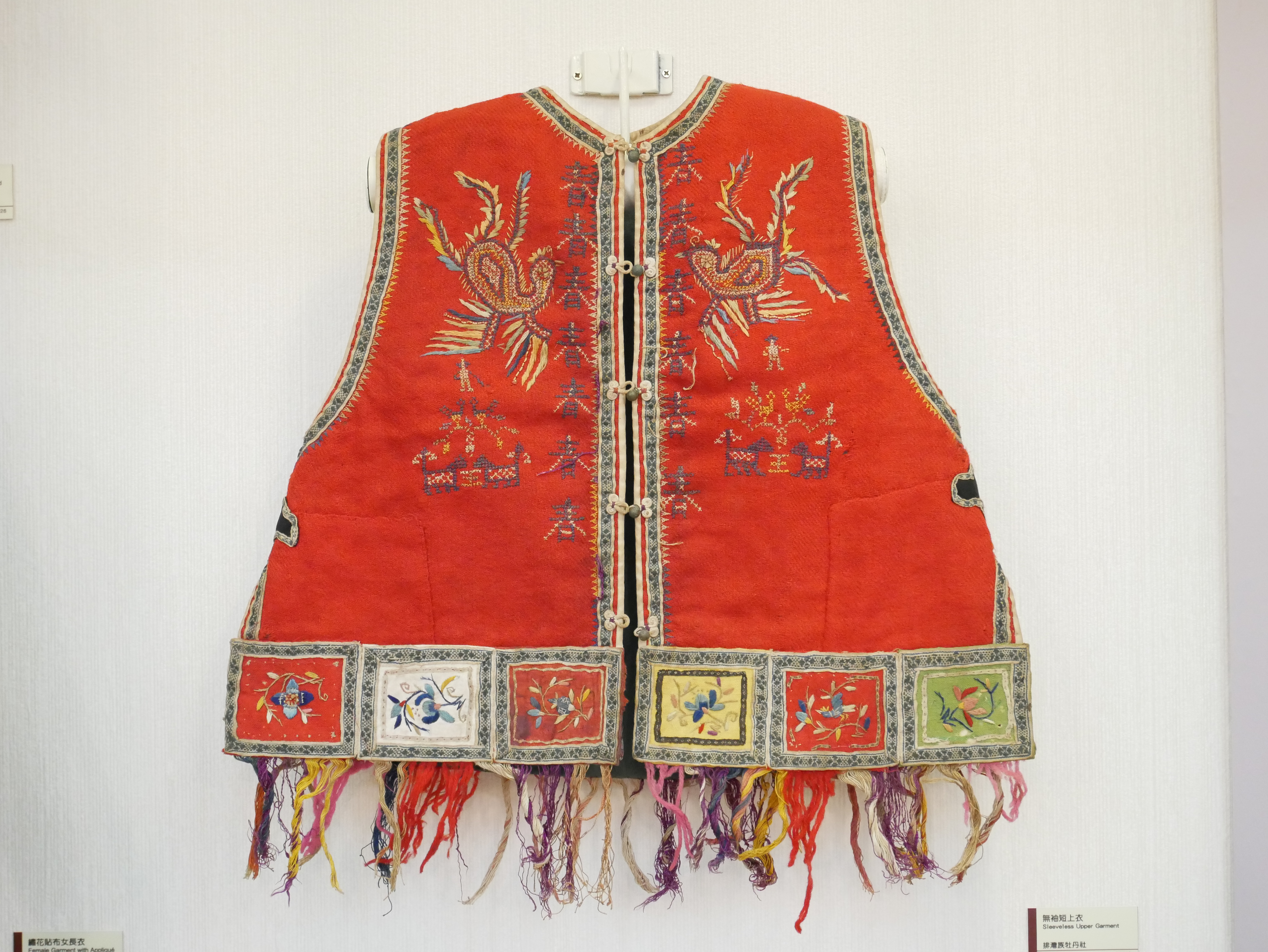 排灣族牡丹社（高雄州恆春郡蕃地牡丹社）林吉牡所有的無袖短上衣（1956年9月7日入藏國立臺灣大學）